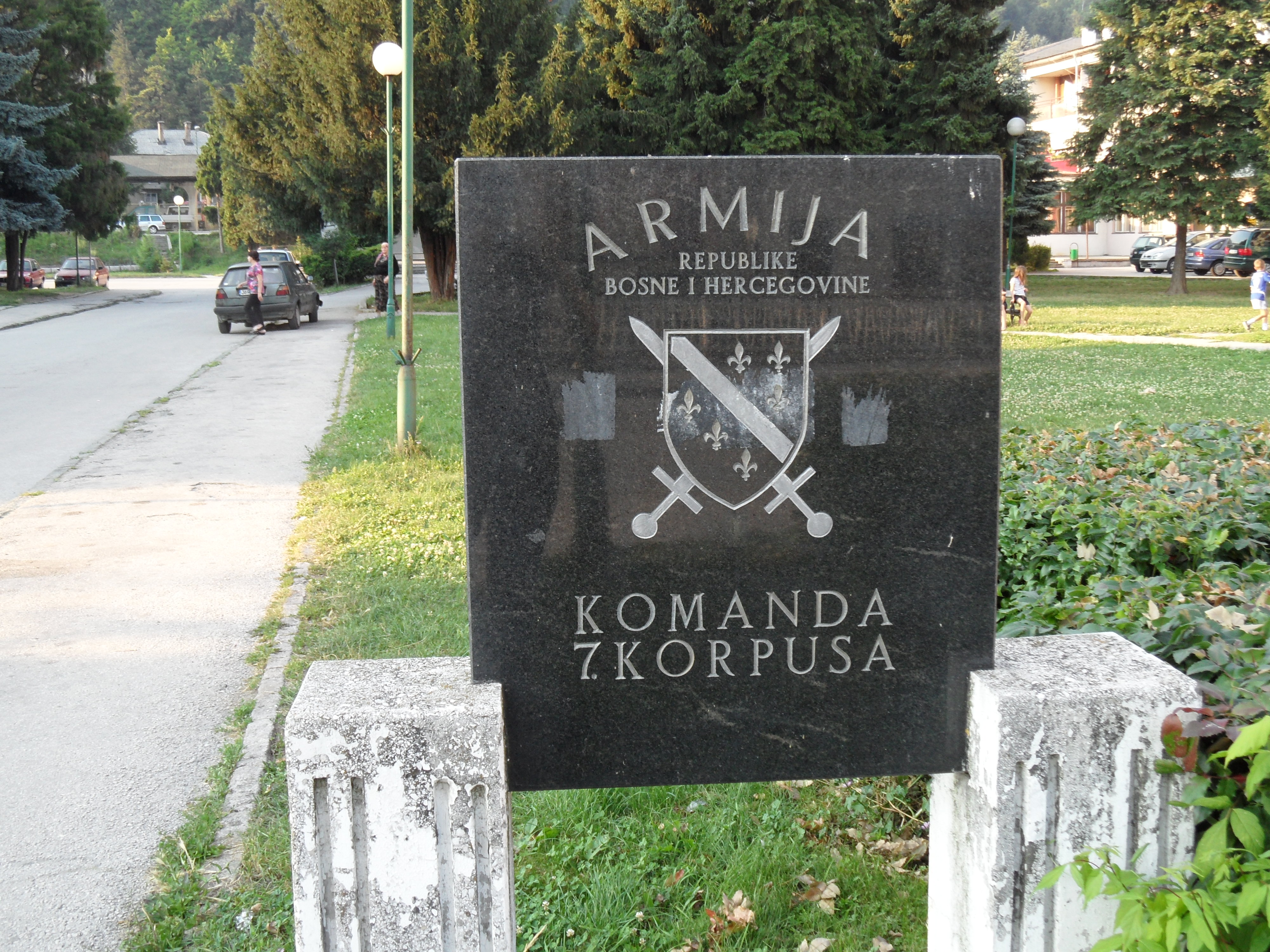 Komanda 7. korpusa in Travnik, BiH